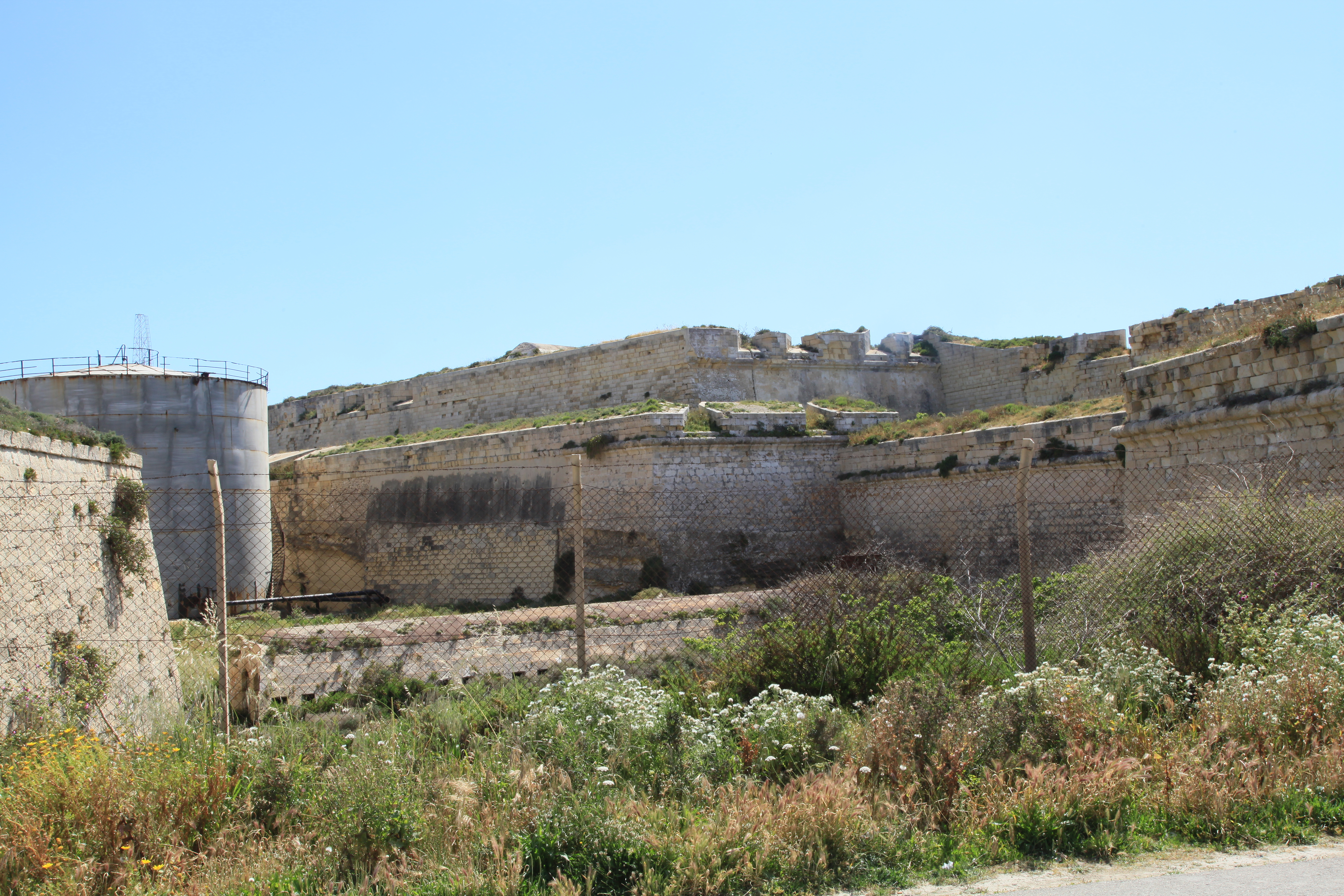 Oil tank at a very unsuitable location, Fort Ricasoli at Triq Santu Rokku in Kalkara, Malta